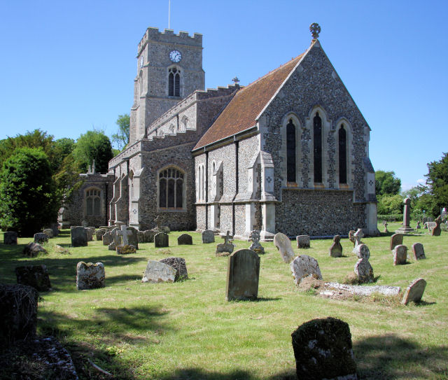 Church of All Saints in Lawshall, Suffolk, England. A Grade I listed medieval church.